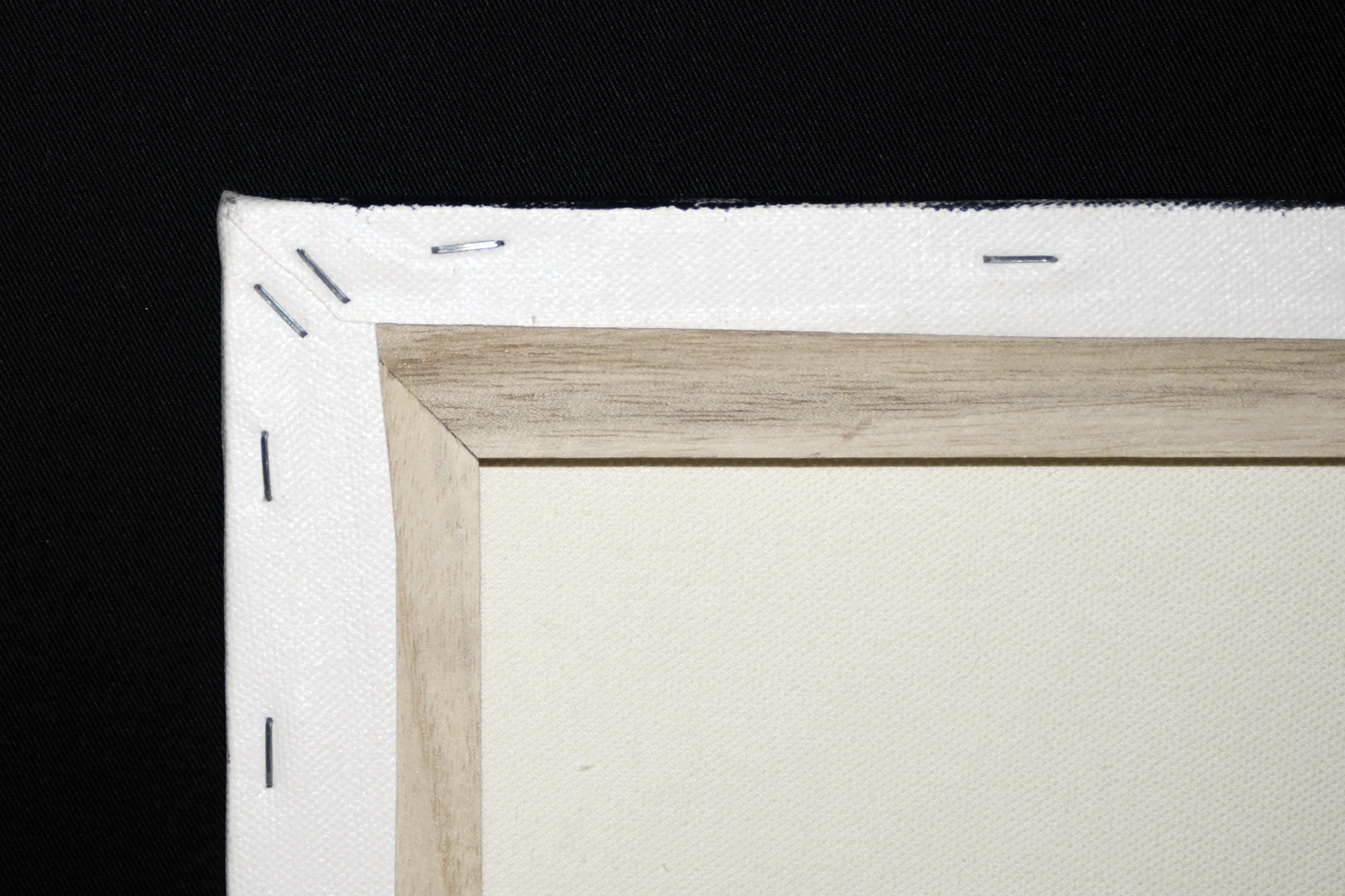 stretcher coated with canvas